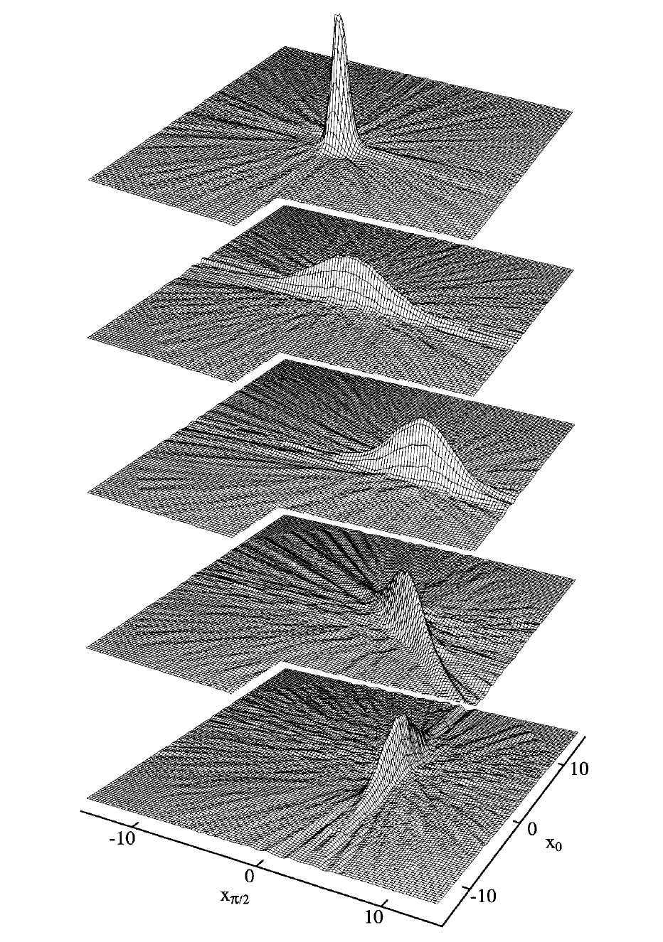 measured Wigner functions of squeezed coherent states. The Wigner functions were reconstructed with the Filtered back projection.